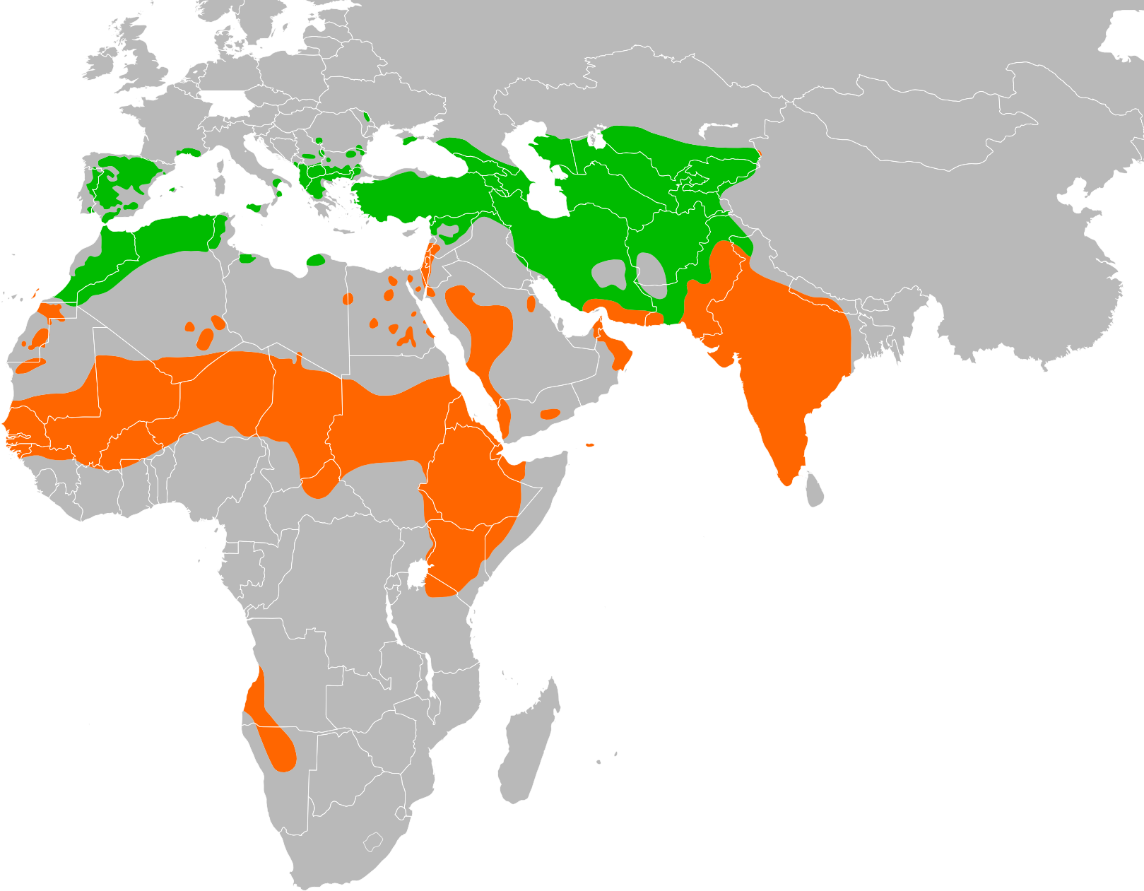 Distribution of the Egyptian Vulture (Neophron percnopterus) by the IUCN Orange #FF6600 : Resident Green #00BB00 : Breeding